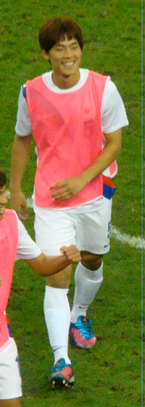 04/08/12 Great Britain v South Korea, Olympic Football, Millennium Stadium, Cardiff, Wales